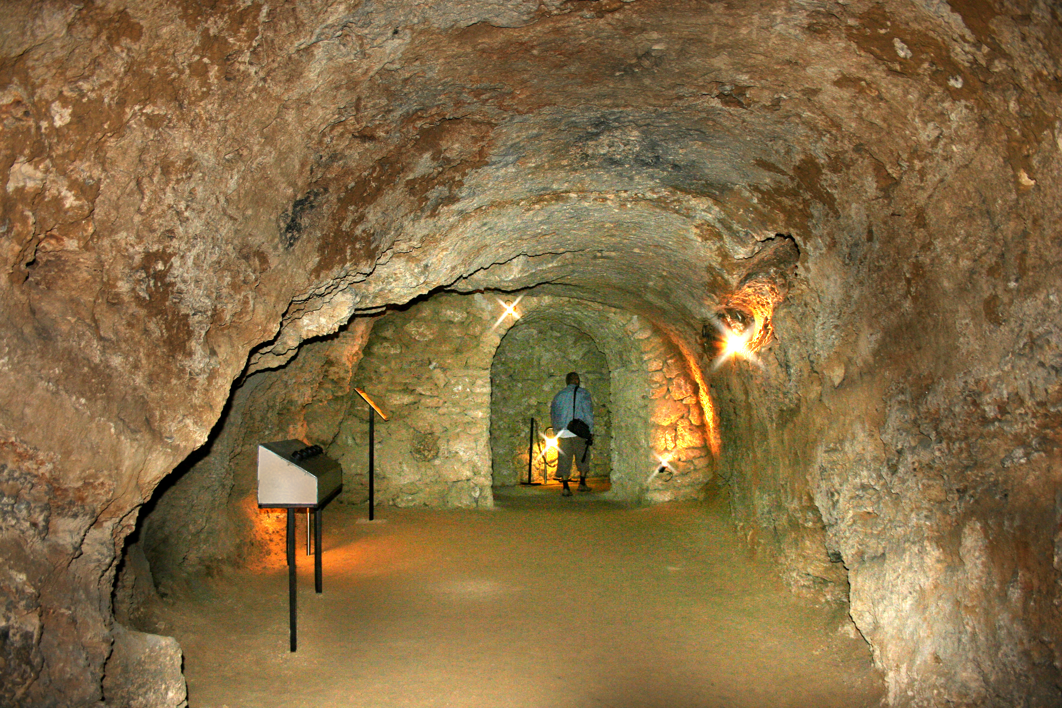 Tettye, Tufa-cave Pecs - Hungary